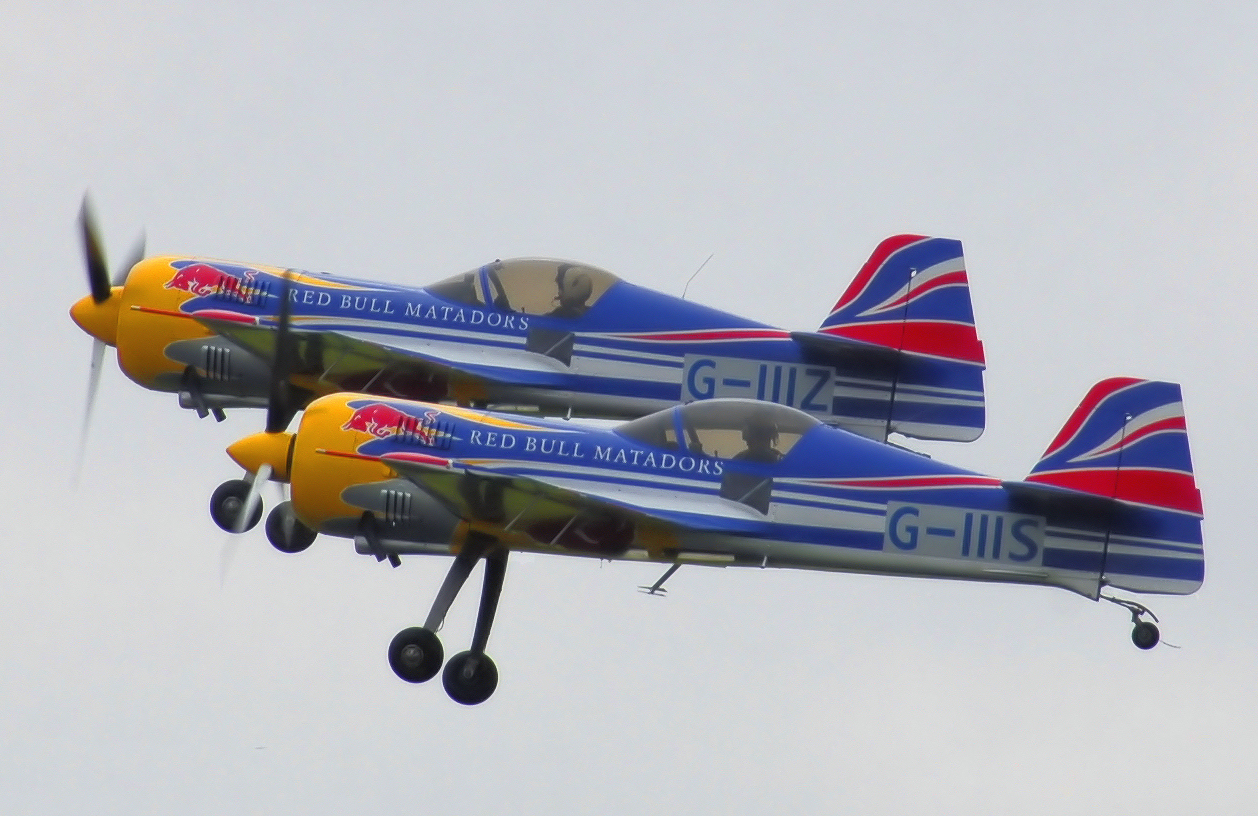 Sukhoi Su-26M of the Red Bull Matadors (G-IIIS and G-IIIZ) take off from the 2008 Open Day, Kemble Airport, Gloucestershire, England. The team started in 1994 as the Sukhoi Duo. The Pilots are Steve Jones and Paul Bonhomme.